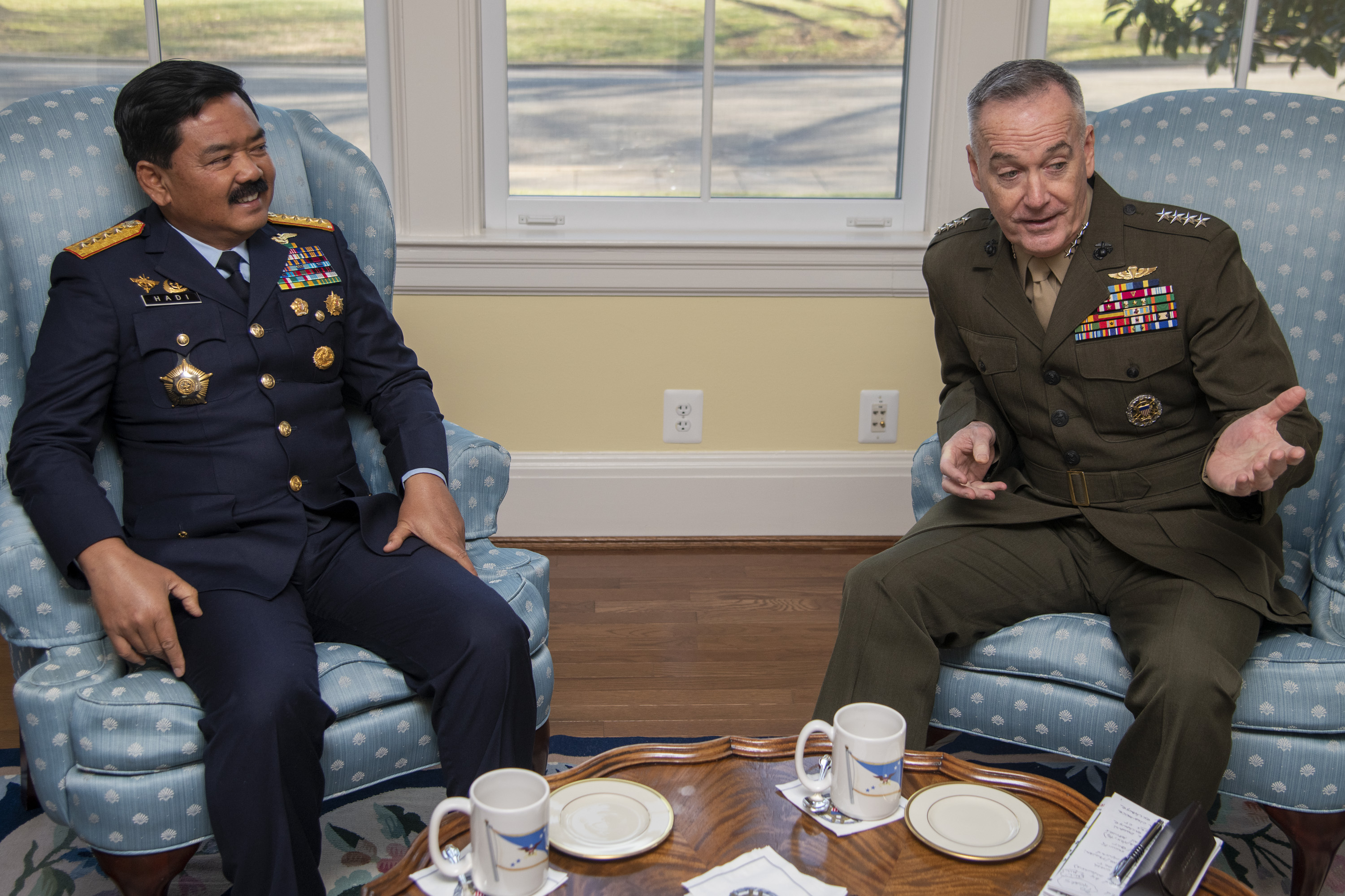 Marine Corps Gen. Joe Dunford, chairman of the Joint Chiefs of Staff, hosts his Indonesian counterpart Air Chief Marshall Hadi Tjahjanto, Commander of the Indonesian National Armed Forces, for coffee at his home, Dec. 11, 2018. DoD Photo by Navy Petty Officer 1st Class Dominique A. Pineiro